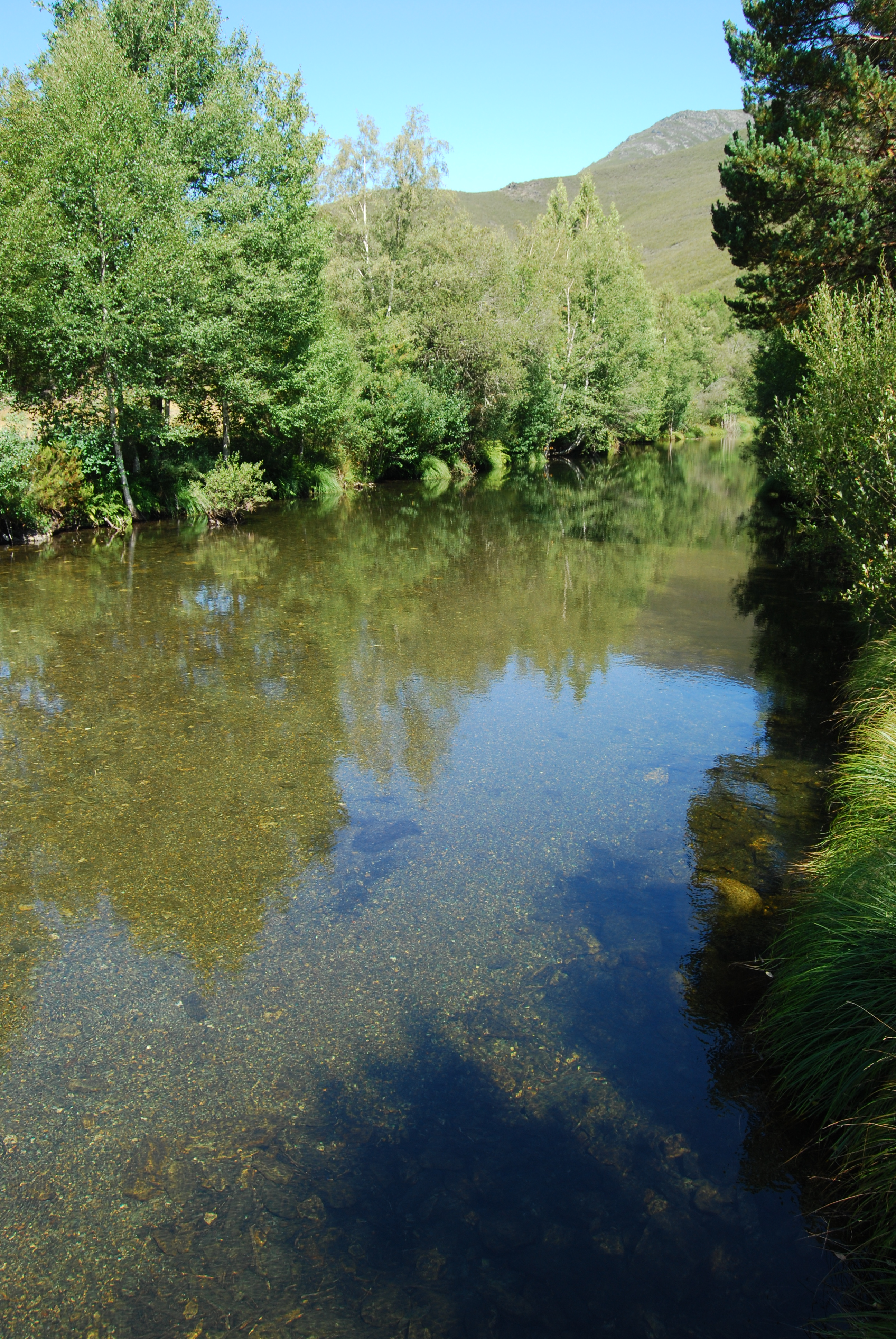 Parque natural do Invernadeiro.